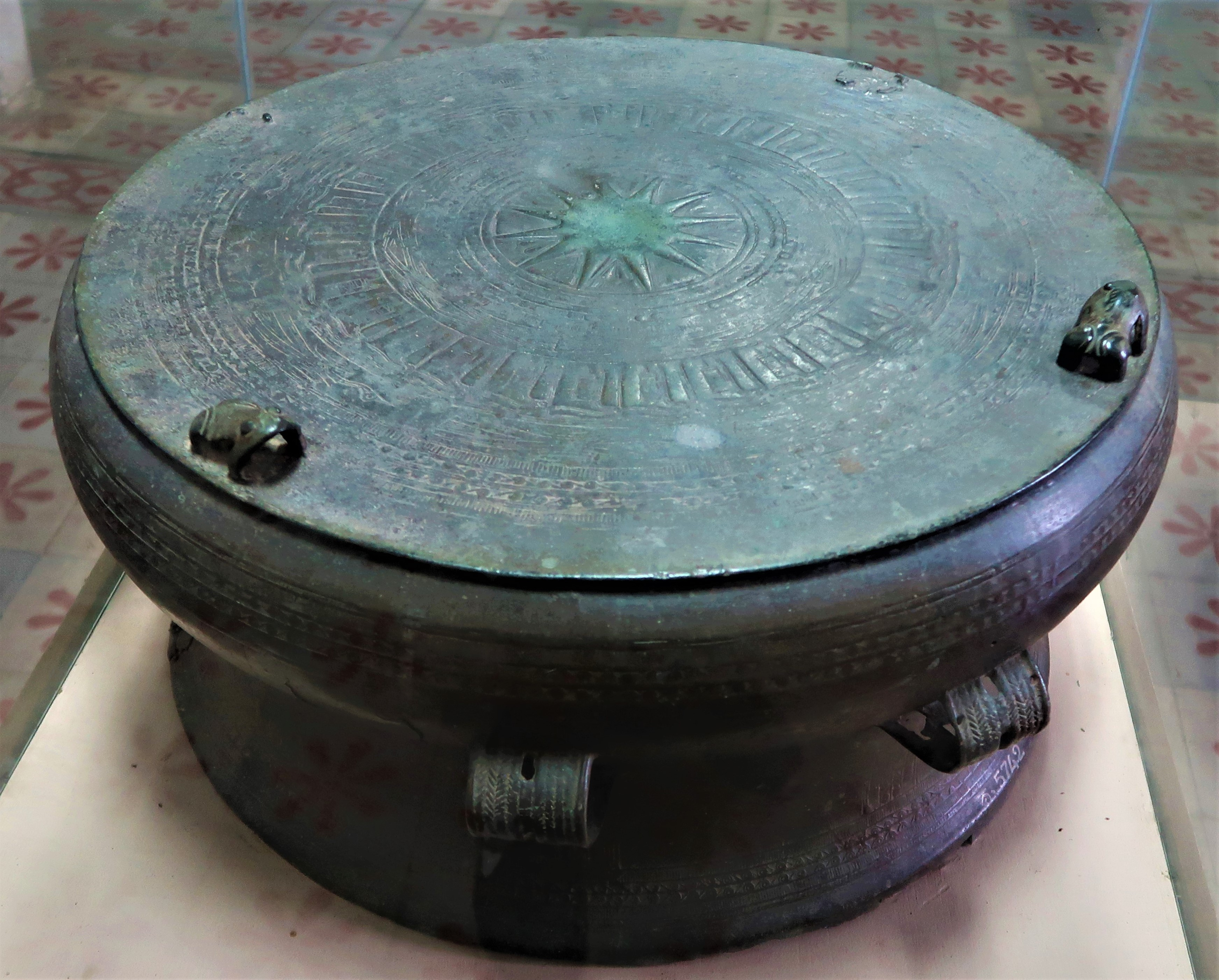 Ceremonial drum from 3rd to 2nd BC. Drum made of bronze and on display at the National Museum of Cambodia.